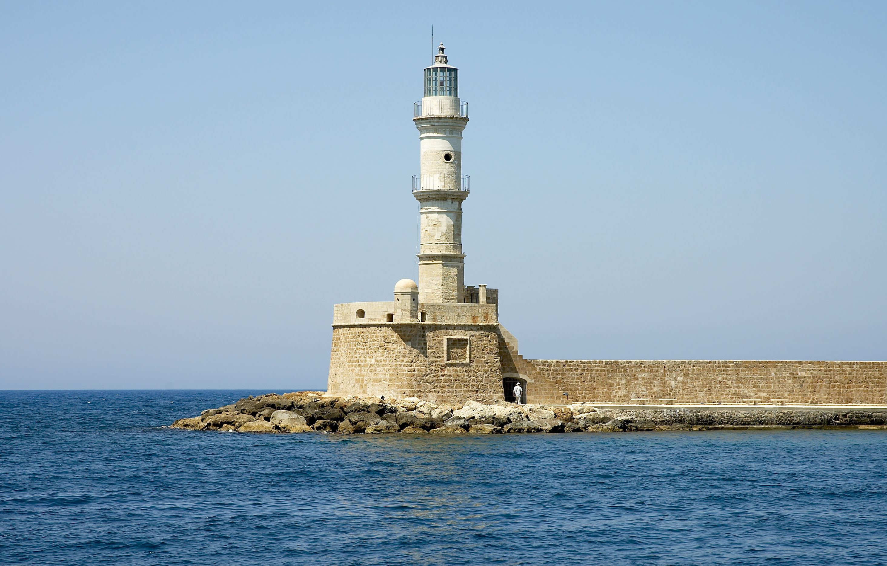 15th century lighthouse in the old harbour of the town of Chania - Google Maps - Google Earth